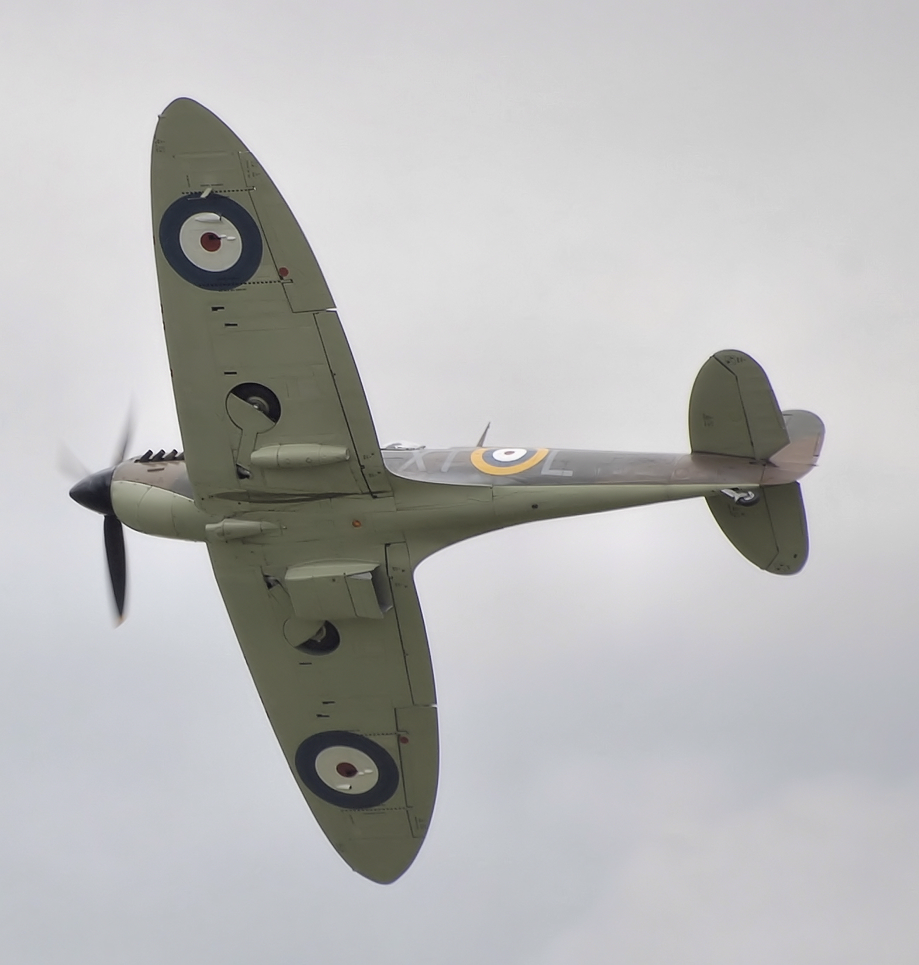 Supermarine Spitfire Mk IIA (Royal Air Force code P7350) at Kemble Air Day, Kemble Airport, Gloucestershire, England. Owned by the UK Battle of Britain Memorial Flight. Quote from the BBMF website: P7350 is the oldest airworthy Spitfire in the world and the only Spitfire still flying today to have actually fought in the Battle of Britain. She is believed to be the 14th aircraft of 11,989 built at the Castle Bromwich ‘shadow' factory, Birmingham . Entering service in the August of 1940, she flew in the Battle of Britain serving with 266 Squadron and 603 (City of Edinburgh ) AuxAF Squadron.